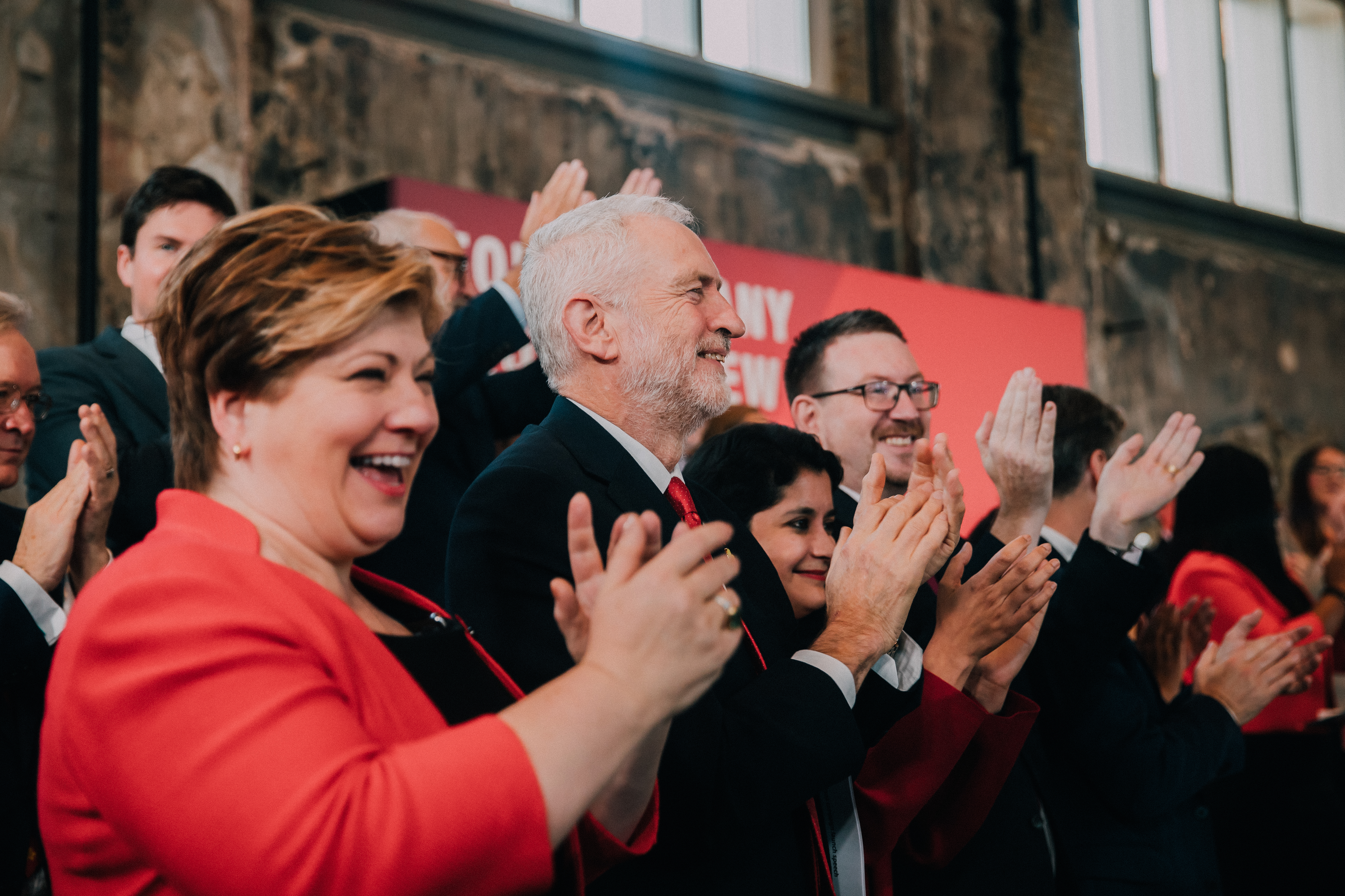 I was in Battersea to launch the most ambitious and radical General Election campaign this country has ever seen, to bring real change to all parts of this country. (31st October, 2019) We put our faith in the British people’s spirit and commitment to community. It’s your country. That’s why we stand with you. Friends, the future is ours to make, together. It’s time for real change.